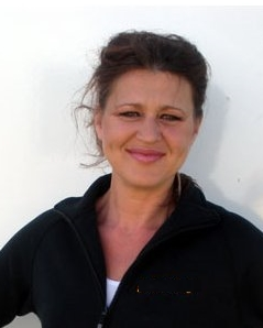 Rie Rasmussen, lead singer in Danish band Danser med Drenge